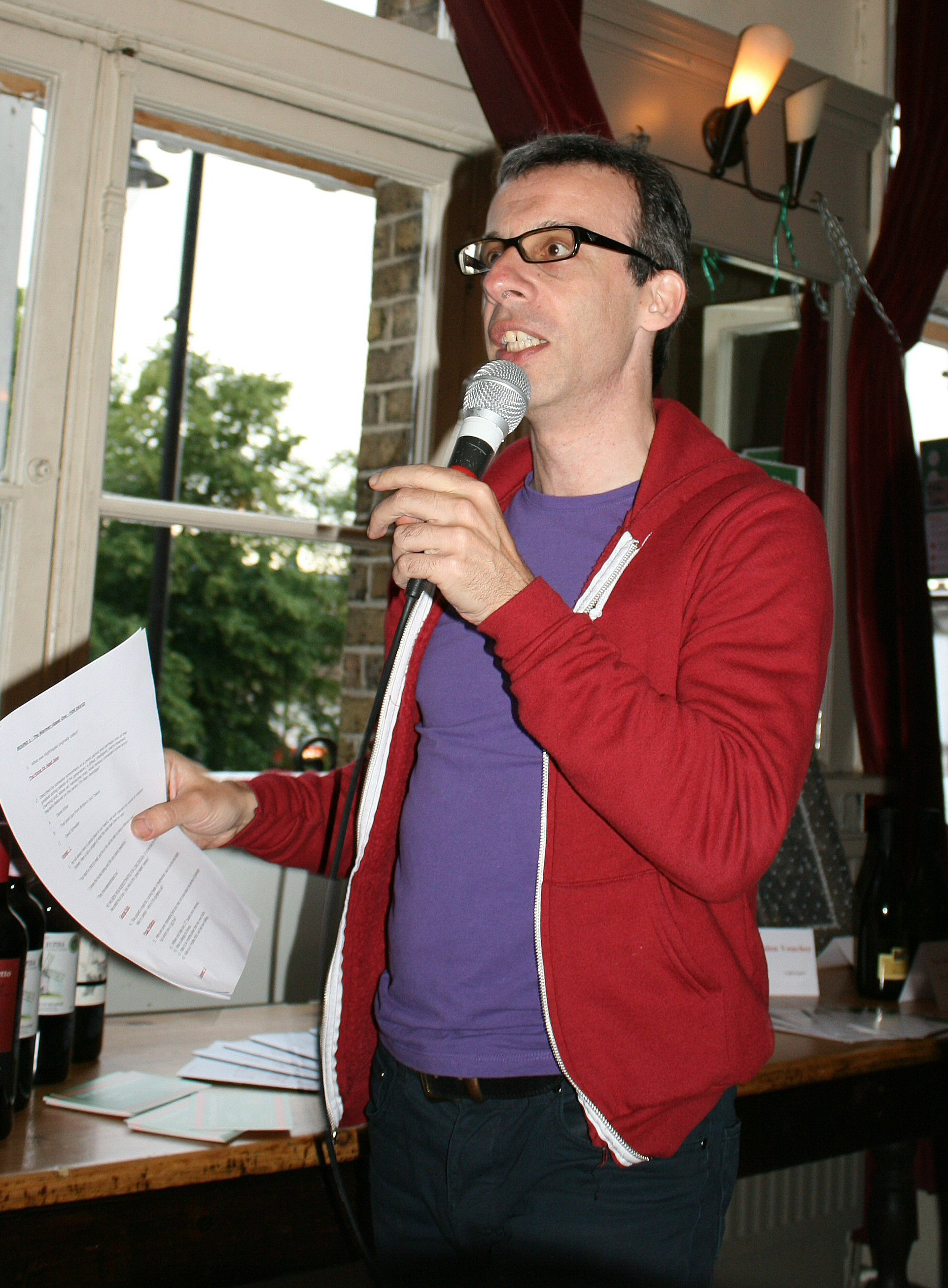 David Schneider, London May 2011